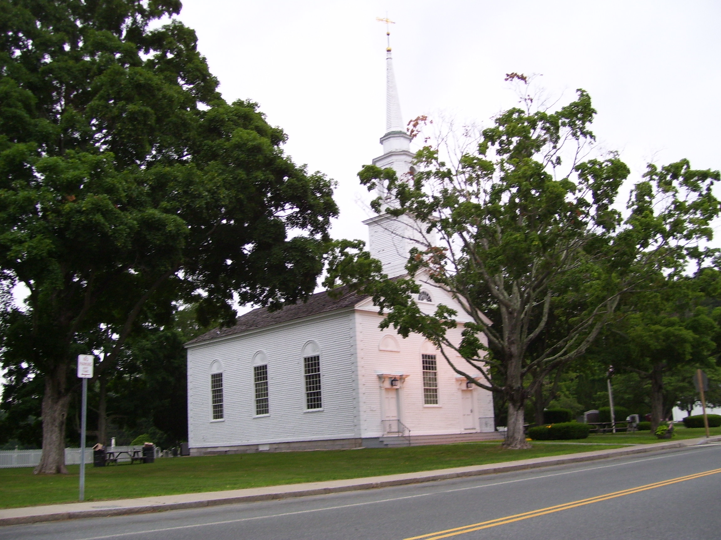 This is my 2008 photo of the Old Congregational Church in Scituate, Rhode Island.